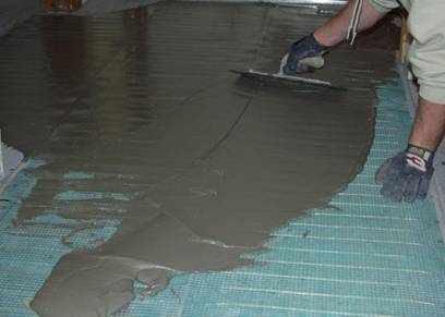 Image of high voltage electric floor heating system being installed